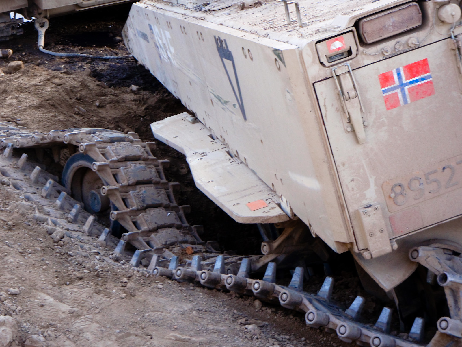 The damage on the Norwegian CV9030 was heavy, and the driver lost his life.